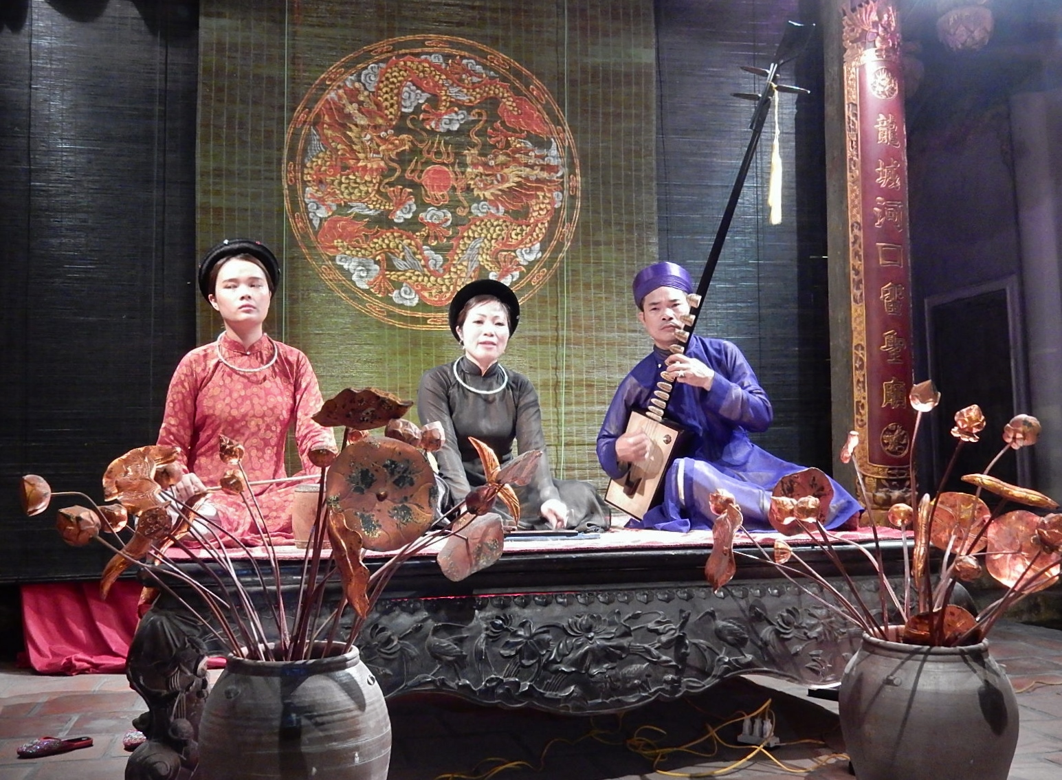 A ca trù performance in Hà Nội. Left: a 'customer' playing the trống chầu drum Center: a ca trù singer playing phách Right: a đàn đáy player